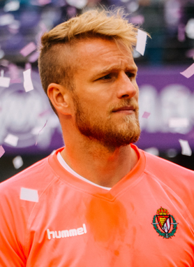 Real Valladolid - Valencia C. F., 38th fixture of the 2018-19 La Liga, May 18, 2019.